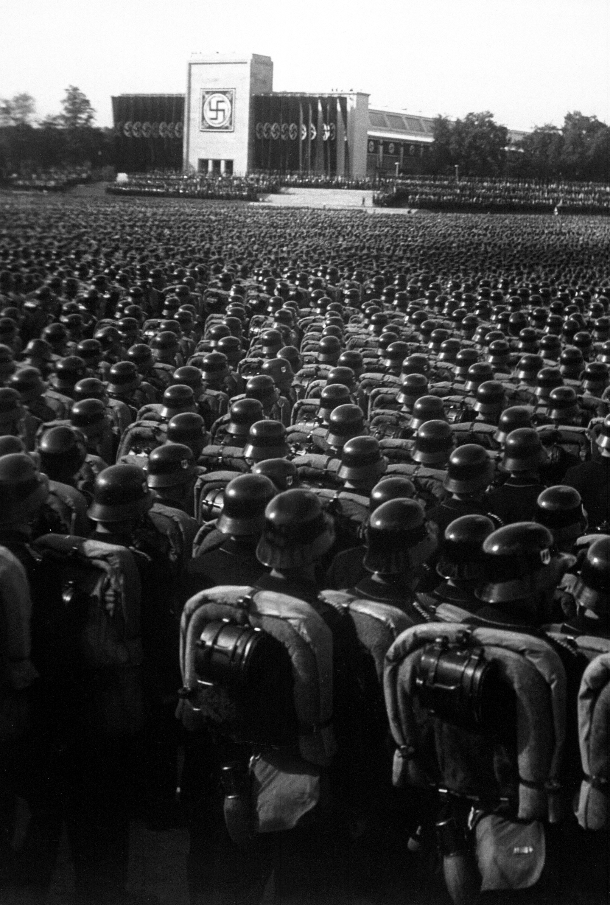 Overview of the mass roll call of SA, SS, and NSKK troops. Nuremberg, November 9, 1935. (National Archives Gift Collection) NARA FILE #: 200-GR-12 WAR & CONFLICT BOOK #: 983